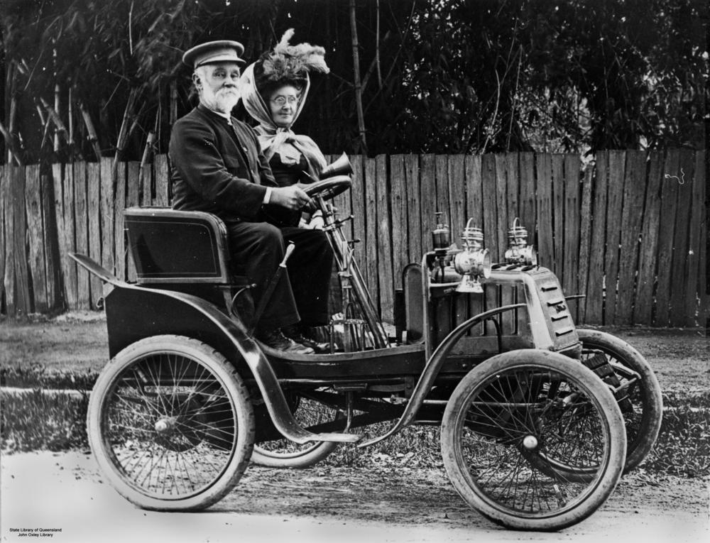 Out driving in an early Linon motor car in Ipswich. This well-dressed Ipswich couple are driving an early Linon voiturette (light car), probably a 1902 model with a single cylinder, 3 1/2 horsepower De Dion-Bouton engine. The man is dressed in long pants, jacket and cap, and the woman is wearing a large, feathered hat secured with a scarf. Linon cars were built in Belgium by a father & son company of former bicycle makers. The car in the photograph is unusual in that the drive is taken from the front mounted engine to the rear wheels by a flat twisted belt, a system more commonly used to drive agricultural machinery at the time. Secured to the front of the dashboard, behind the oil lamps, is a glass and metal lubricator device.